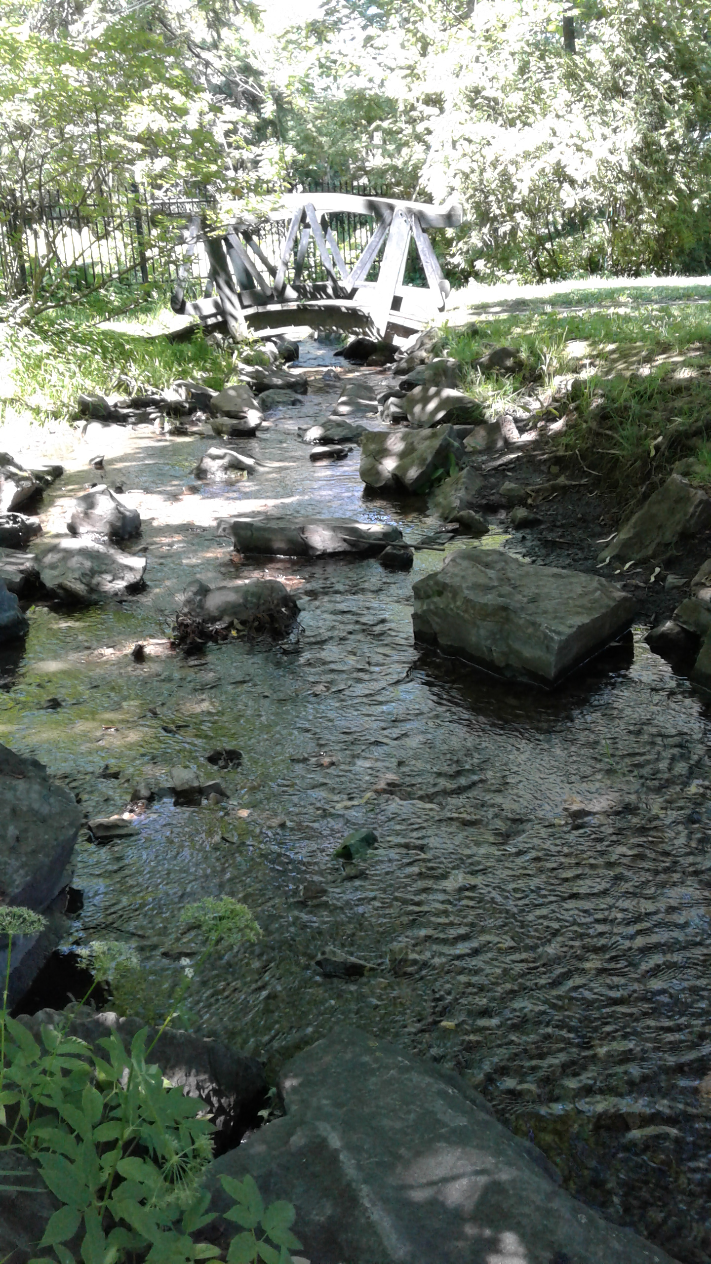 The brook in the small Oakwood Park in upper Outremont